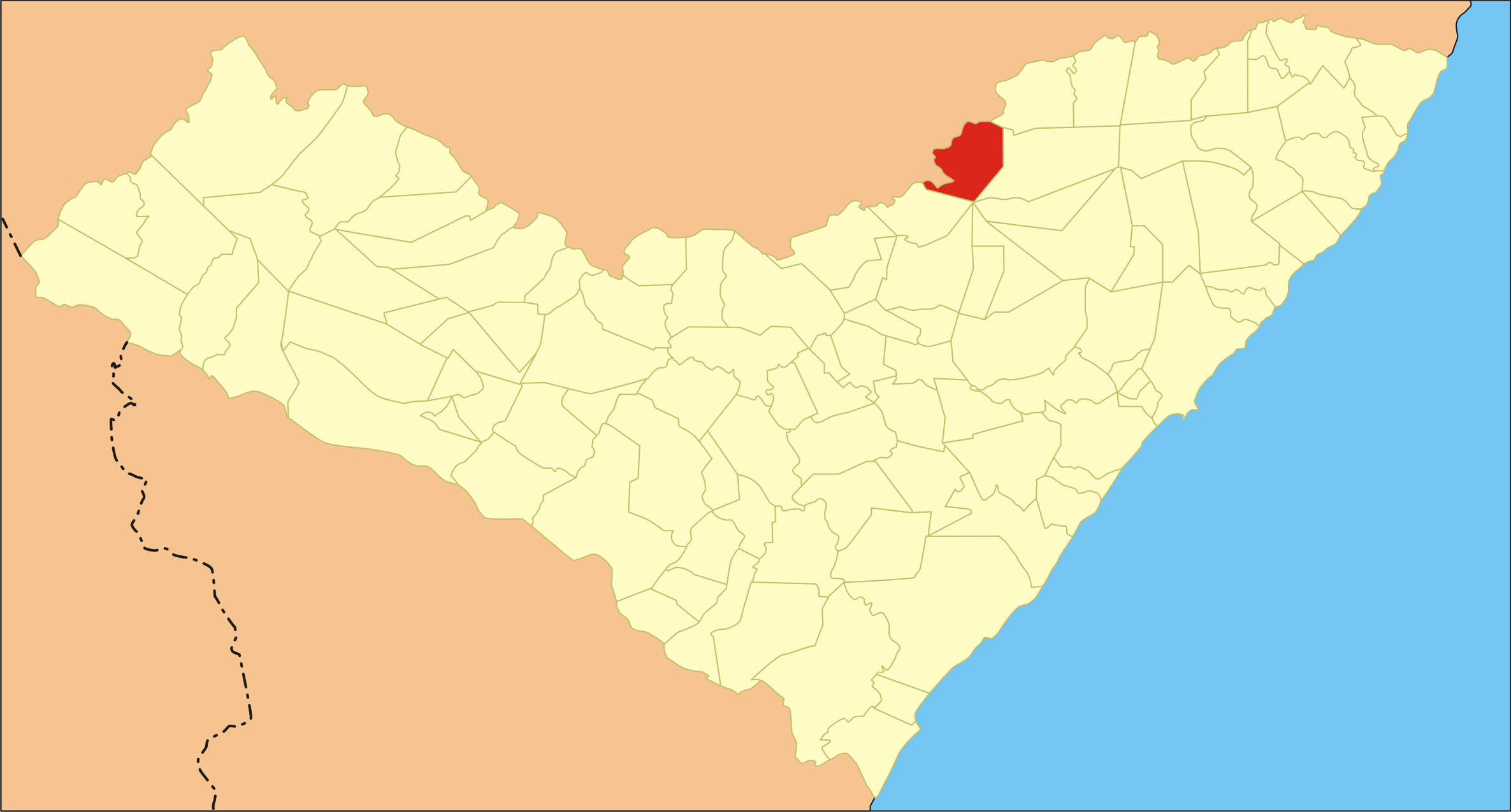 City localization in Alagoas